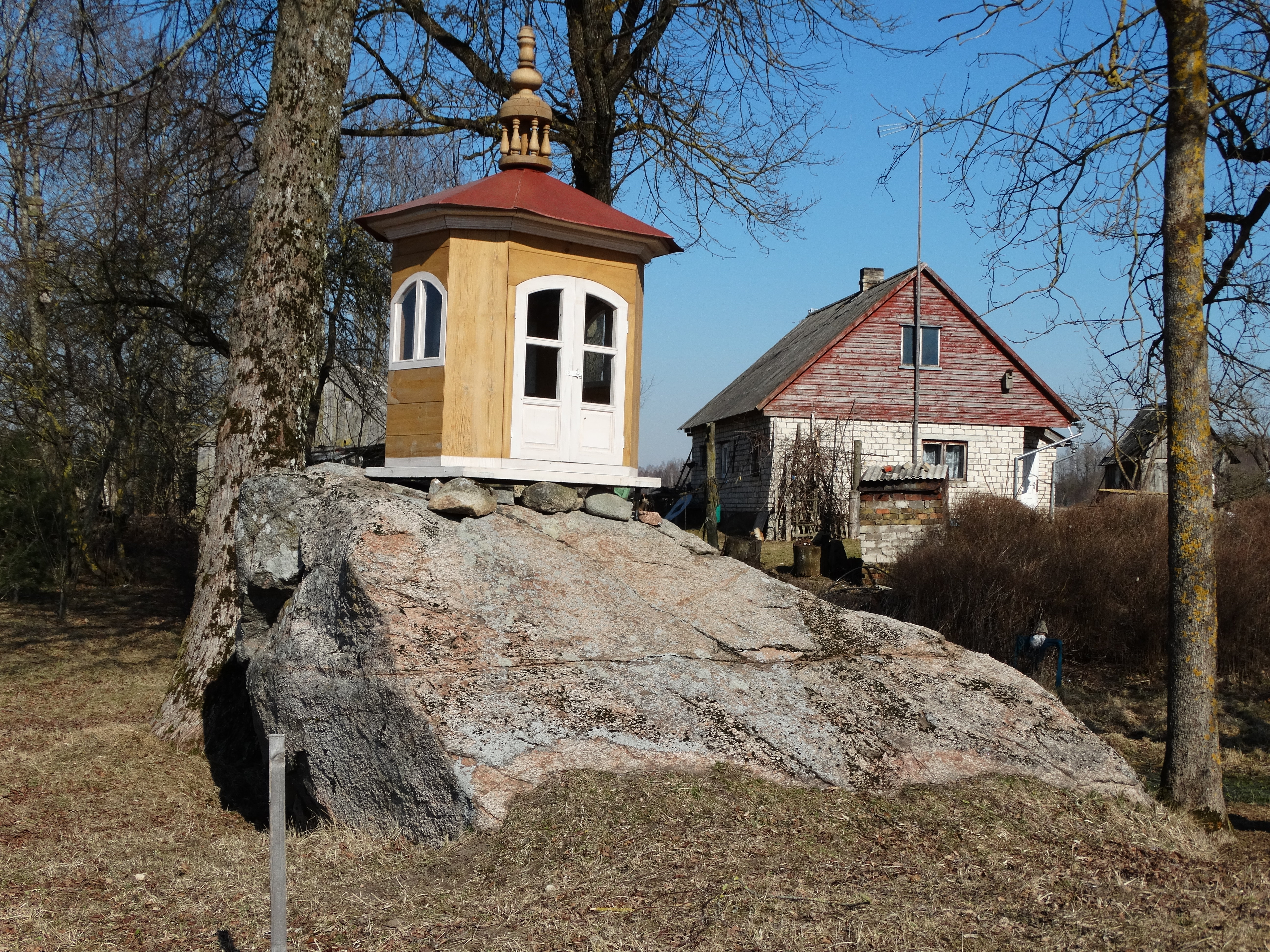 Akmenė stone and chapel, Raseiniai District, Lithuania